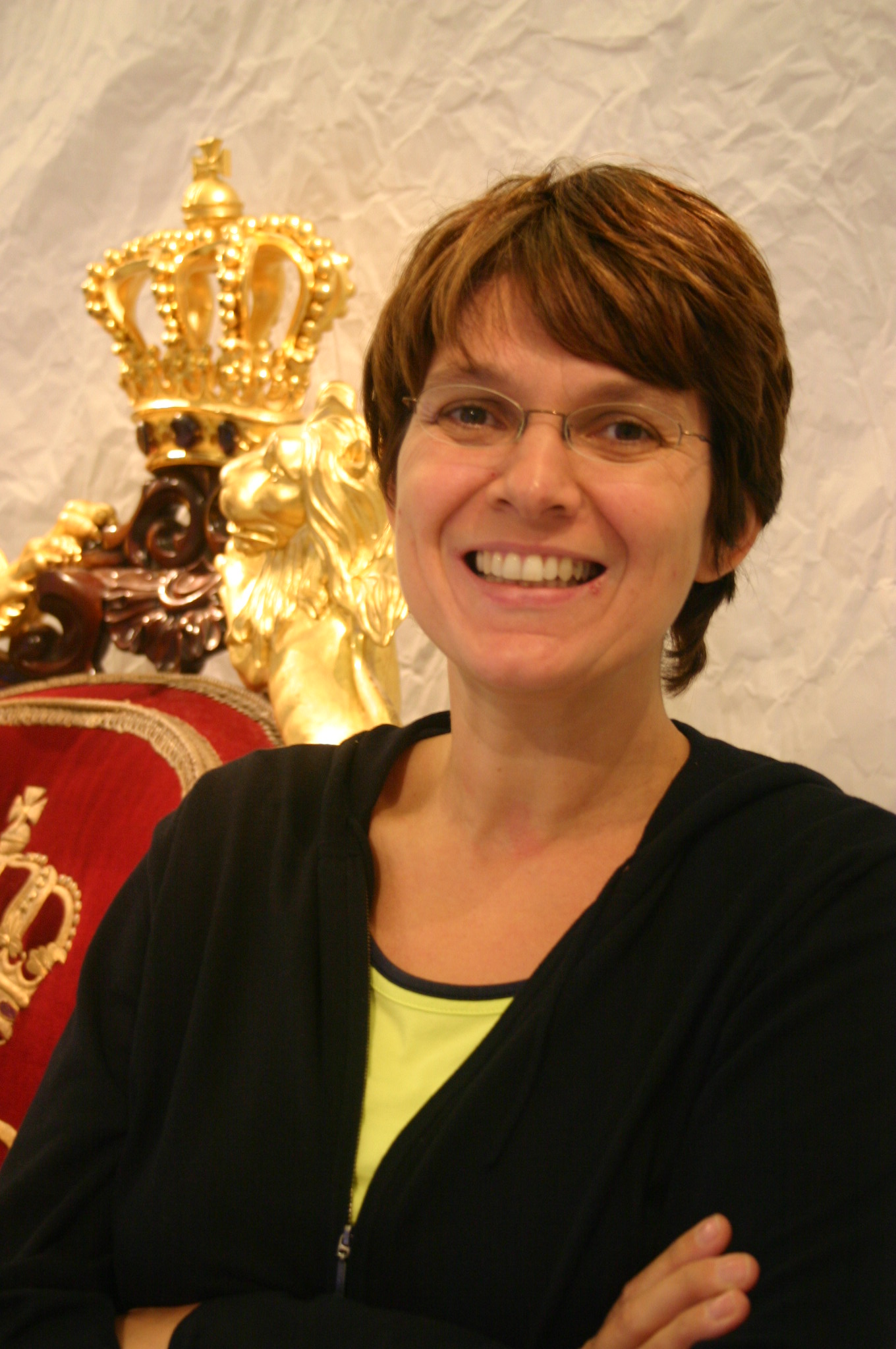 Marie-Paule Jungblut, 2006